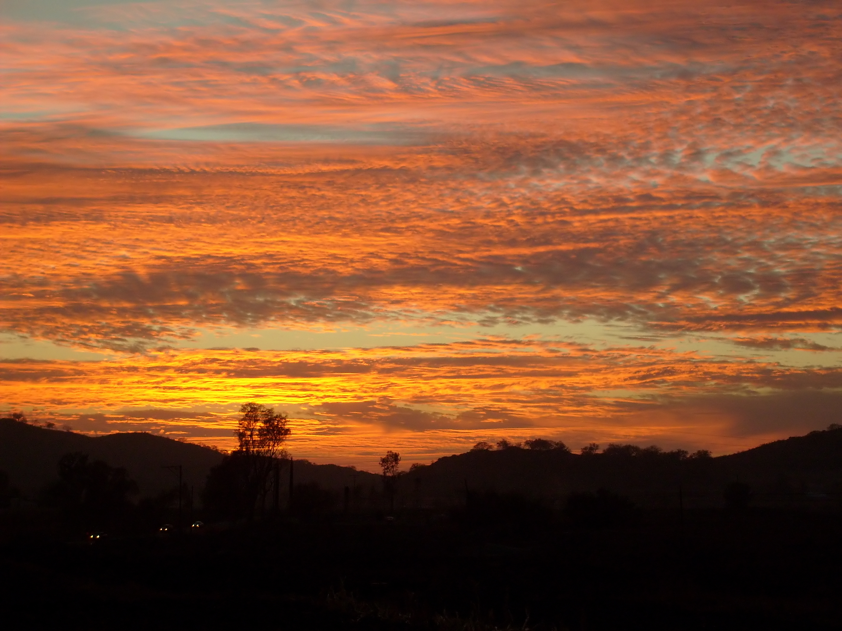 Aftermath of the California 2007 wildfires: Witch Creek Fire, San Diego County. Smoke remains in the air long after the fires have been extinguished. The visible effect at twilight is unusually brilliant tones in the fading sky, but the stench is overpowering. This is a retouched picture, which means that it has been digitally altered from its original version. Modifications: Denoising by Lycaon.